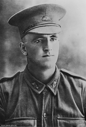 Portrait of Sergeant Claud Charles Castleton VC ID Number: H06769 Date made: c 1915-1916 Physical description: Black & white Summary: Portrait of 1352 Sergeant Claud Charles Castleton, 5th Company, Australian Machine Gun Corps. Awarded the Victoria Cross for most conspicuous bravery on 28 July 1916 after being killed in action on that date. Copyright: Copyright expired - public domain Copyright holder: Copyright Expired Related subject: Portraits; Victoria Cross Related unit: 5 Machine Gun Company Related conflict: First World War, 1914-1918